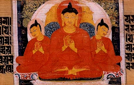 Painting of the Buddha supernaturally multiplying his body, referred to as the miracle at Sravasti. Sanskrit Astasahasrika Prajnaparamita Sutra manuscript written in the Ranjana script. Nalanda, Bihar, India. Circa 700-1100 CE.